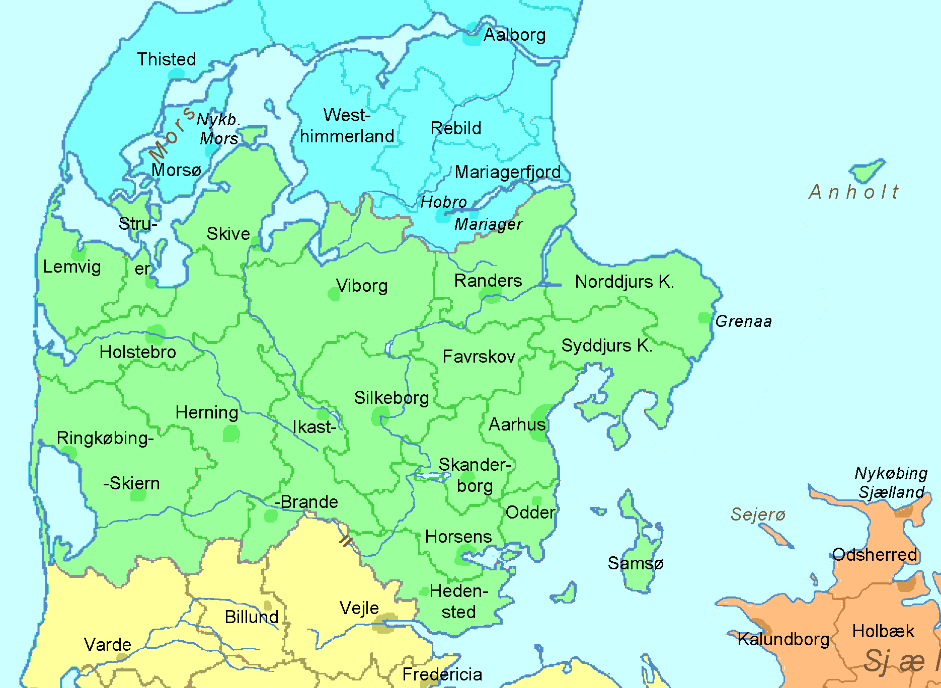 Municipalities of Denmark effective January 1 2007.